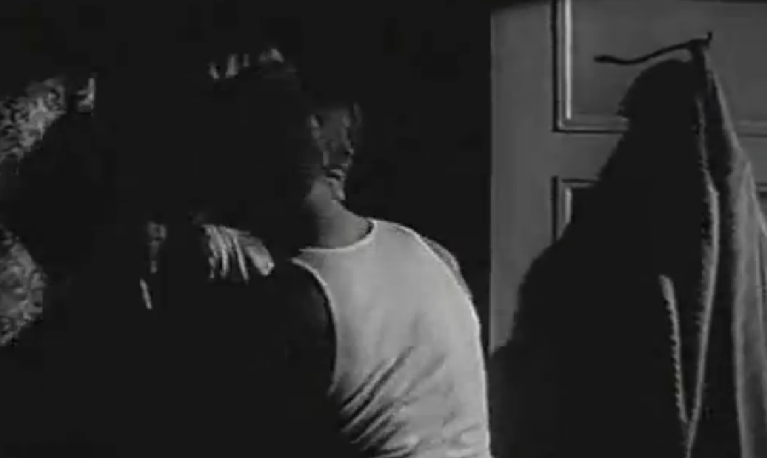 Scene from the film "Hud". Hud Bannon (Paul Newman) attempts to rape Alma (Patricia Neal)